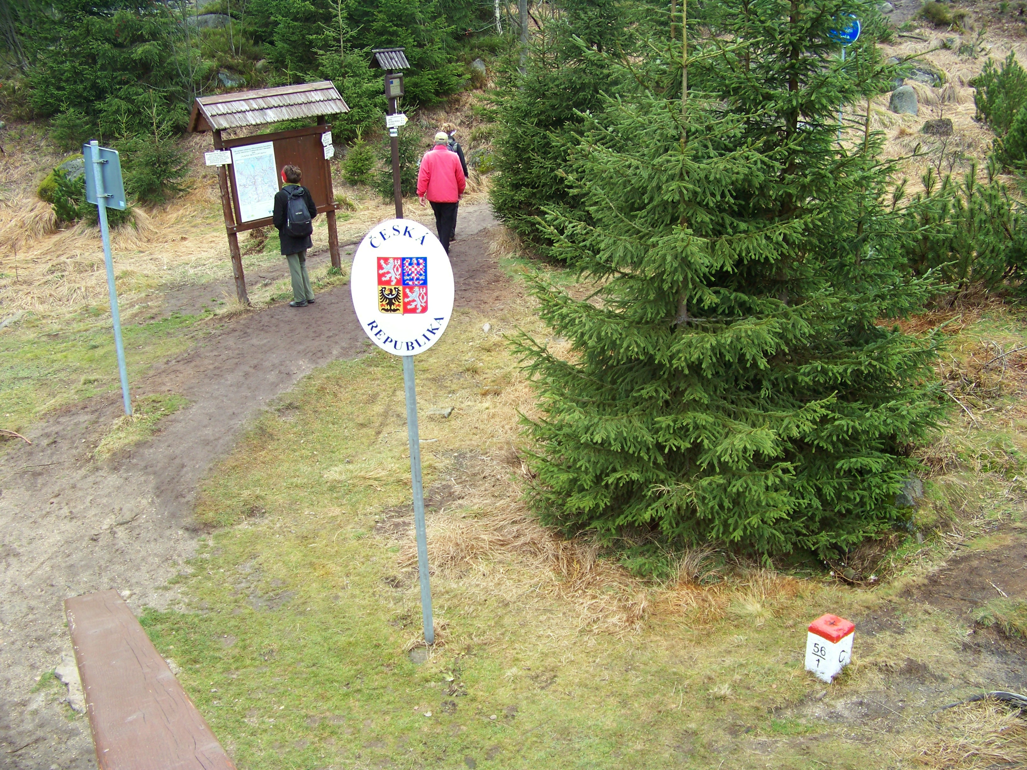 Kořenov-Jizerka, Jablonec nad Nisou District, Liberec Region, the Czech Republic. A hiking fingerpost near the bridge over the Jizera River at the trail from Orle in Poland to Jizerka in the Czech Republic.